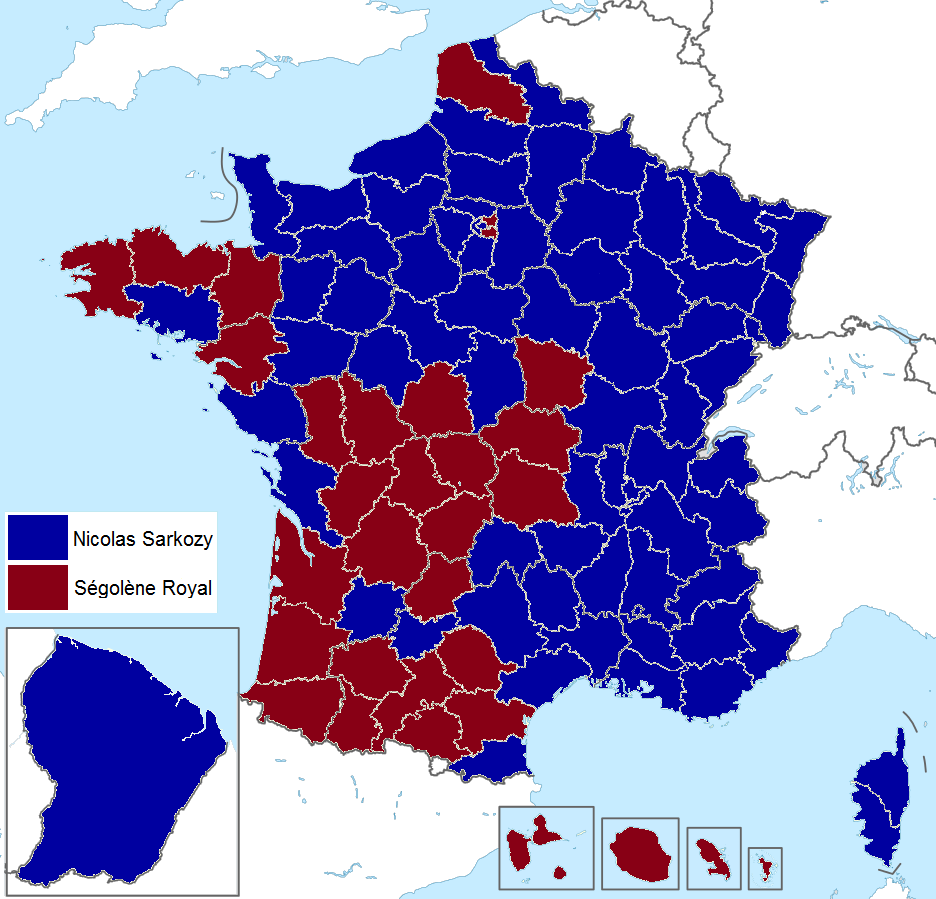 French presidential election (2. round) results (including overseas) by departament, 2007